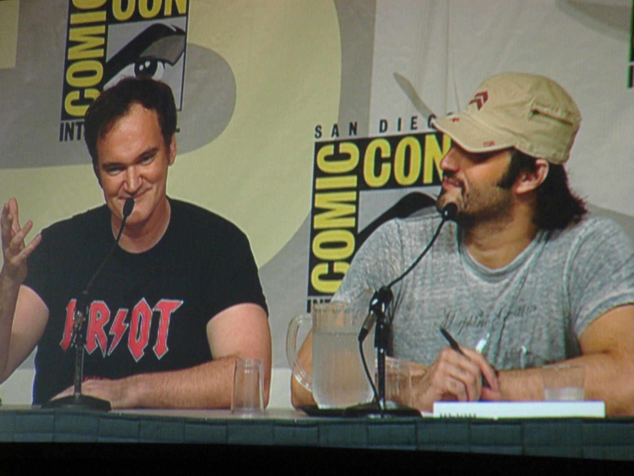 Quentin Tarantino and Robert Rodriguez at 2006 San Diego Comic-Con.